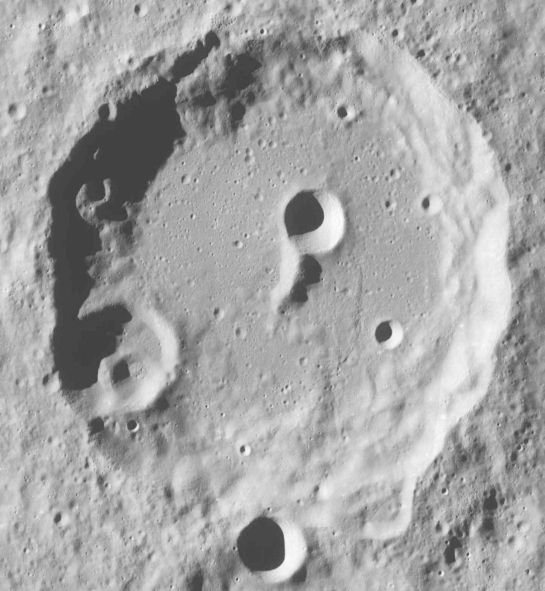 Crater Pitiscus (detail of LRO - WAC global moon mosaic; Mercator projection)